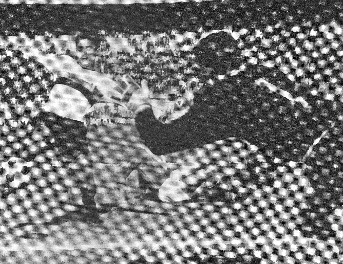 Milan (Italy), San Siro, October 23, 1966. F.C. Internazionale — A.C. Brescia 1-0, Matchday 6 of the Italian Championship 1966–67 Serie A: Internazionale 's forward Angelo Domenghini (left) in action versus Brescia's goalkeeper Fabio Cudicini (no. 1).